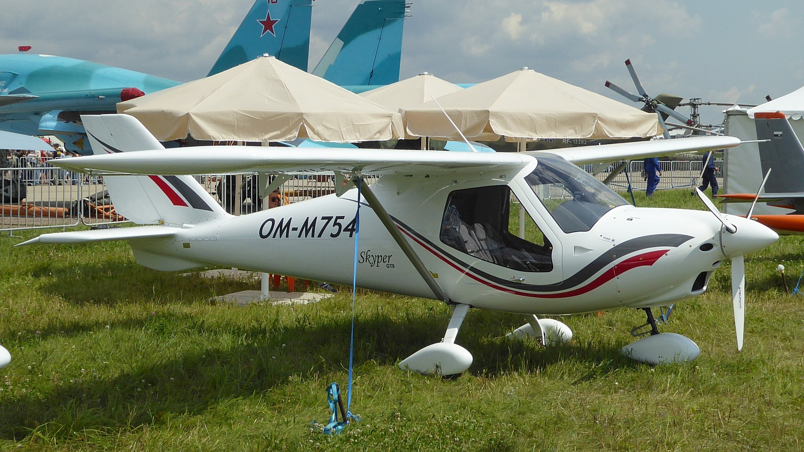 At MAKS 2017, Zhukovsky, Russia